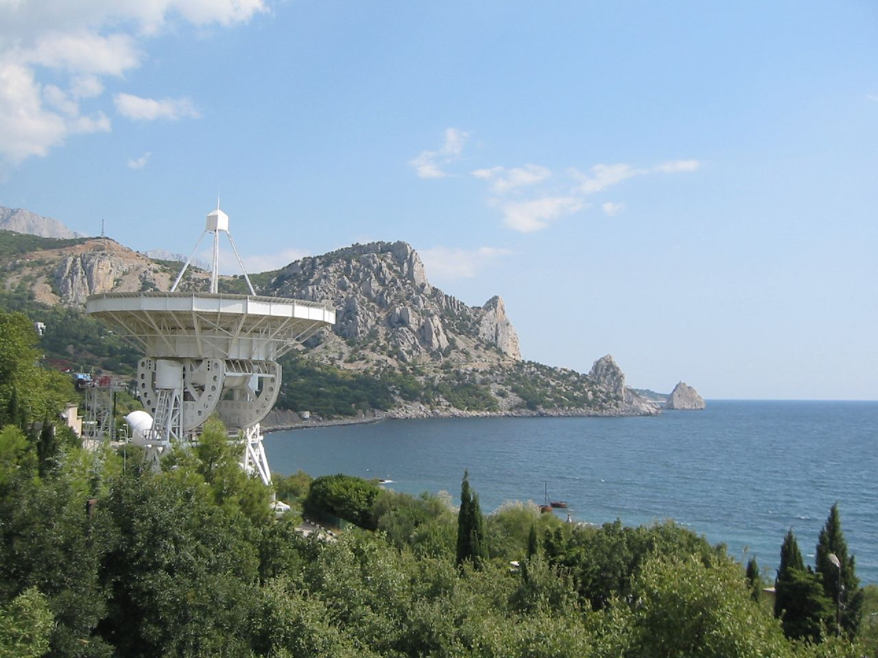 Simeiz VLBI Station. The Laboratory of Radioastronomy of the Crimean Astrophysical Observatory (CrAO) with its 22-m radio telescope is located near Simeiz 25 km to the west of Yalta. The 22-meter radio telescope is located at the foot of mount Koshka (Cat) in Katsiveli (near Simeiz), on the banks of Blue Gulf of Black Sea in South part of Crimea peninsula. It was constructed in 1965 and participated in the first VLBI observations in 1969 in cooperation with USA.